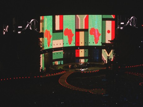 U2, Vertigo Tour, San Siro Milano 21-07-2005